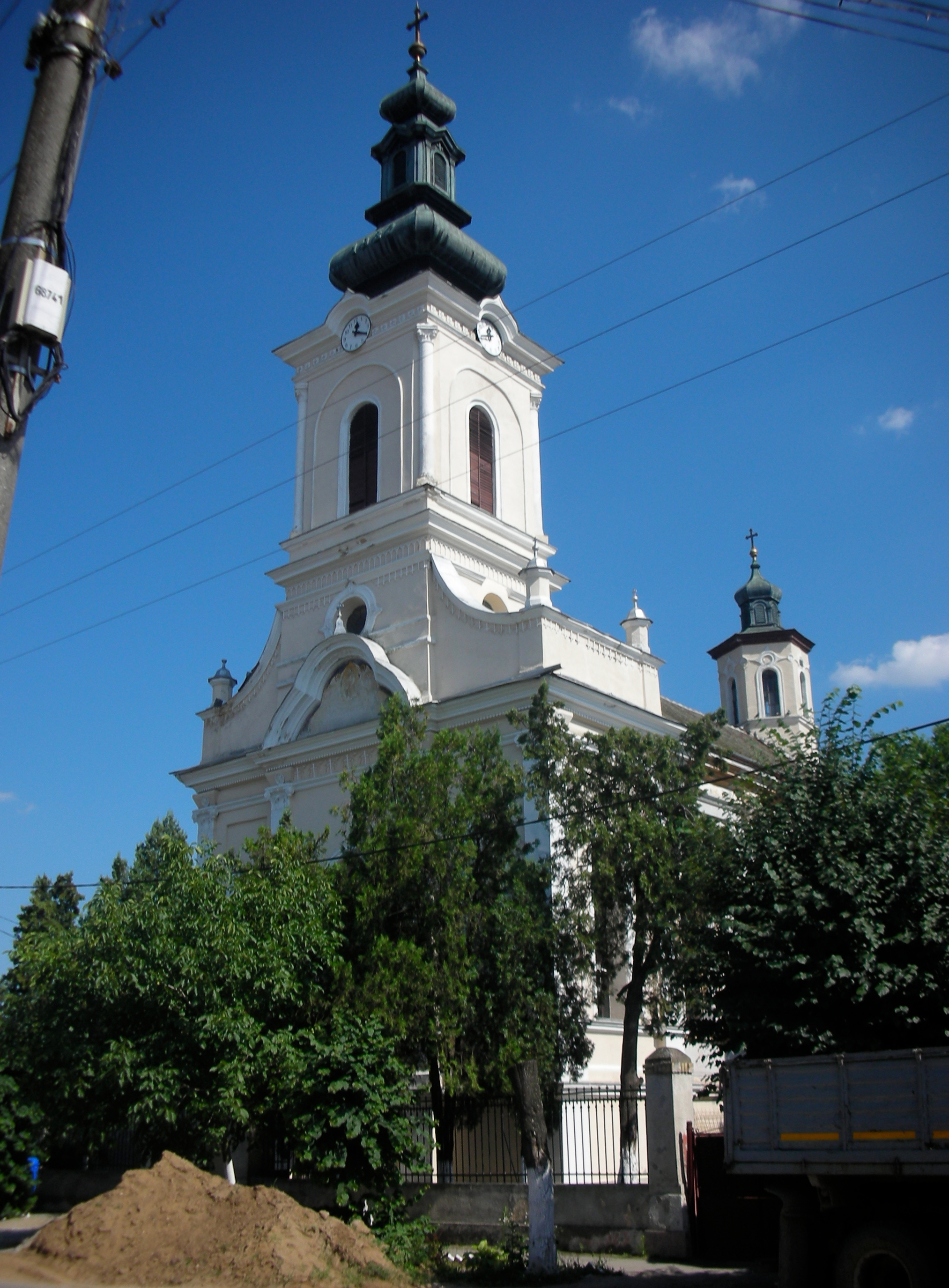 the Romanian Orthodox church in Ciacova, Romania